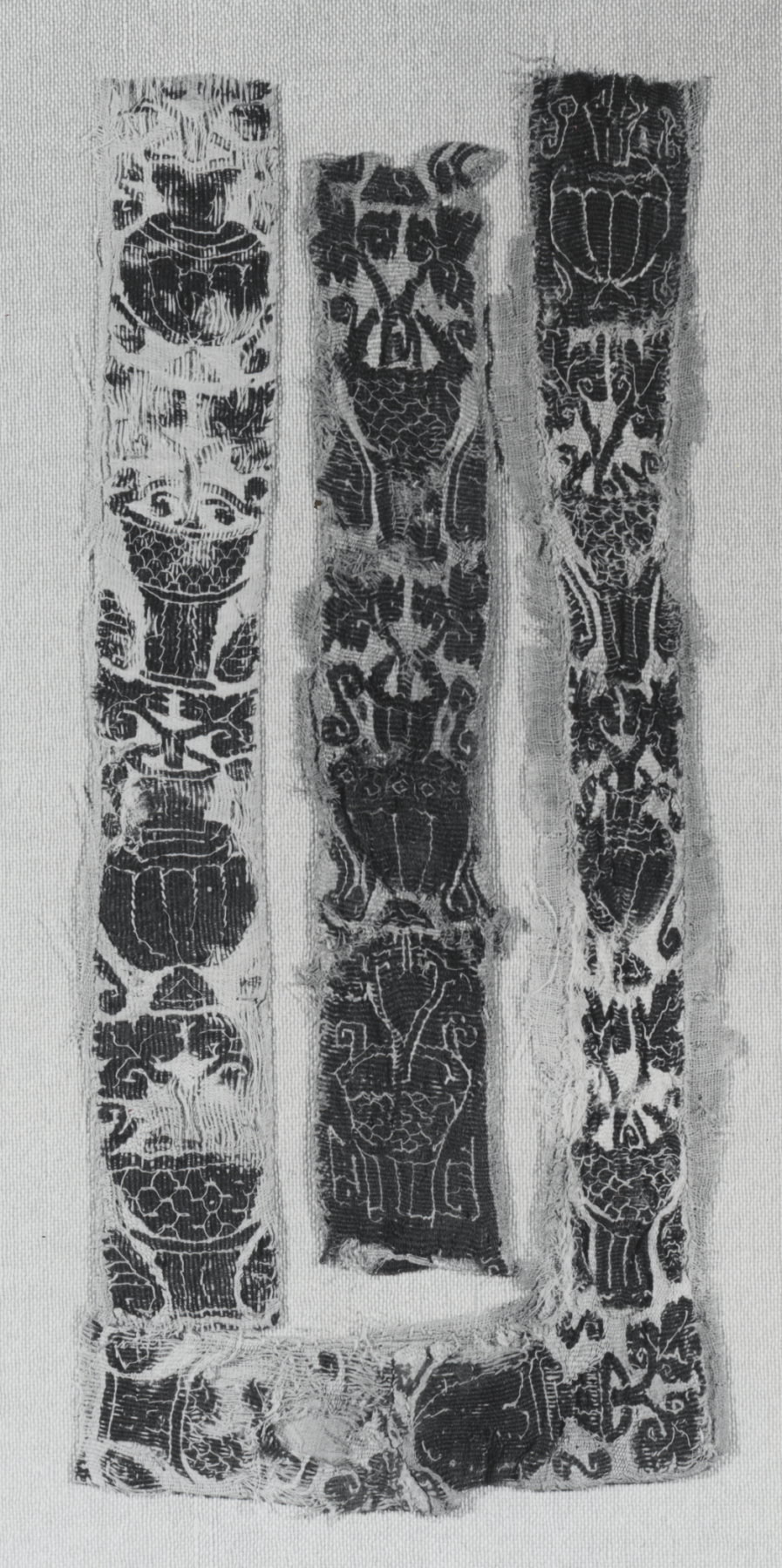 Images of wine jugs and grape vines were common on clavi (vertical strips of ornamentation). While the meaning was probably secular, vases and vines later evolved into a religious motif symbolizing eternal life or the "Tree of Life." These "clavi" are characteristic of the monochromatic style of purple wool woven onto white linen.